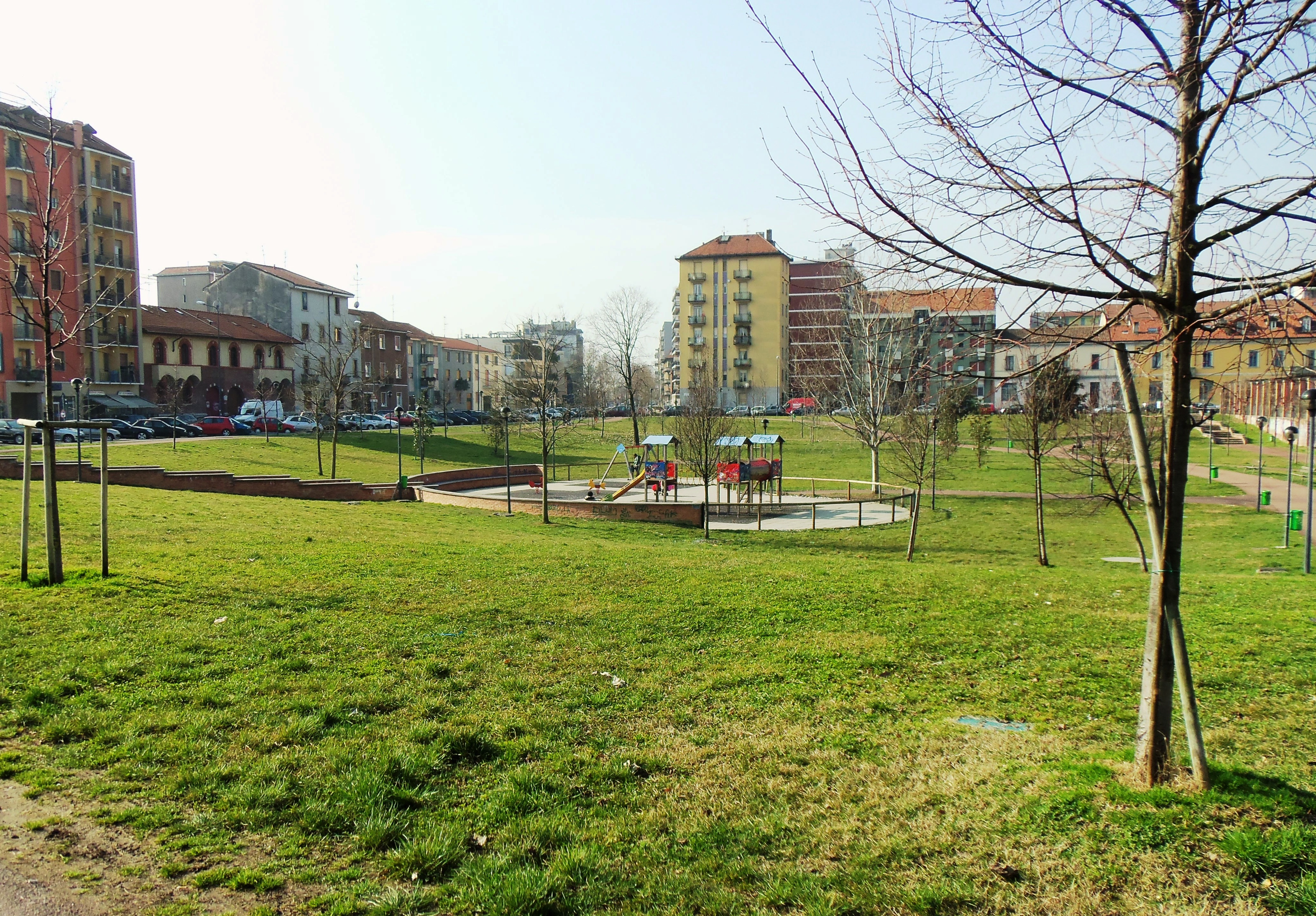 Milano, zona 6, near Naviglio grande, Robert Baden Powell garden